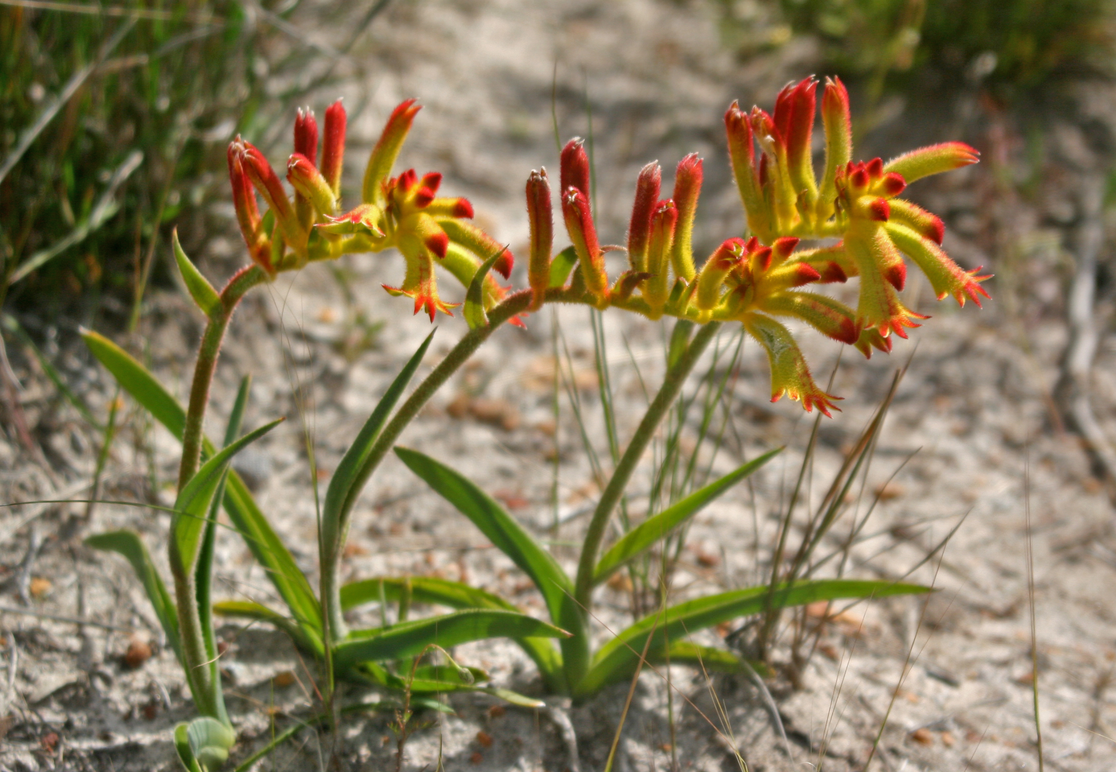 cat's paw - smaller and brighter than the kangaroo's